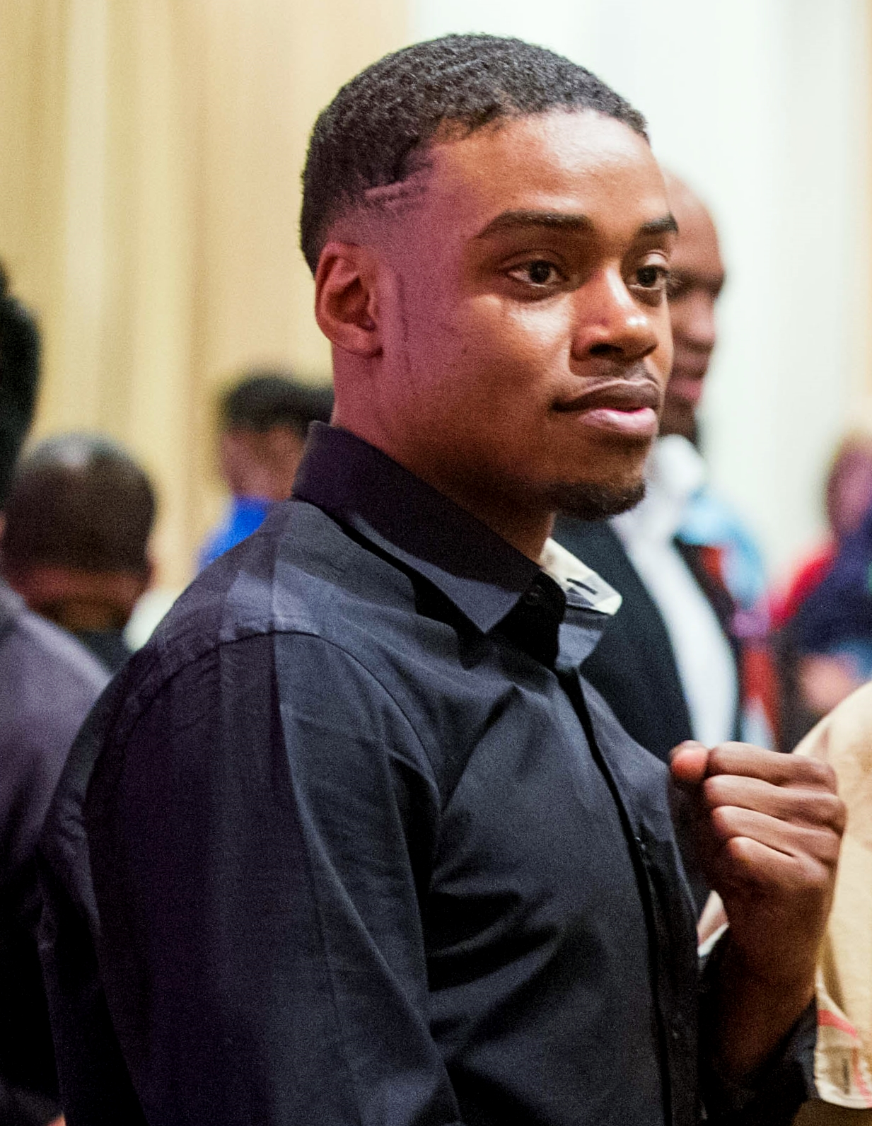 Errol Spence, Jr. at the Texas A&M University-Commerce campus for a panel discussion and Q&A session on March 19, 2014.